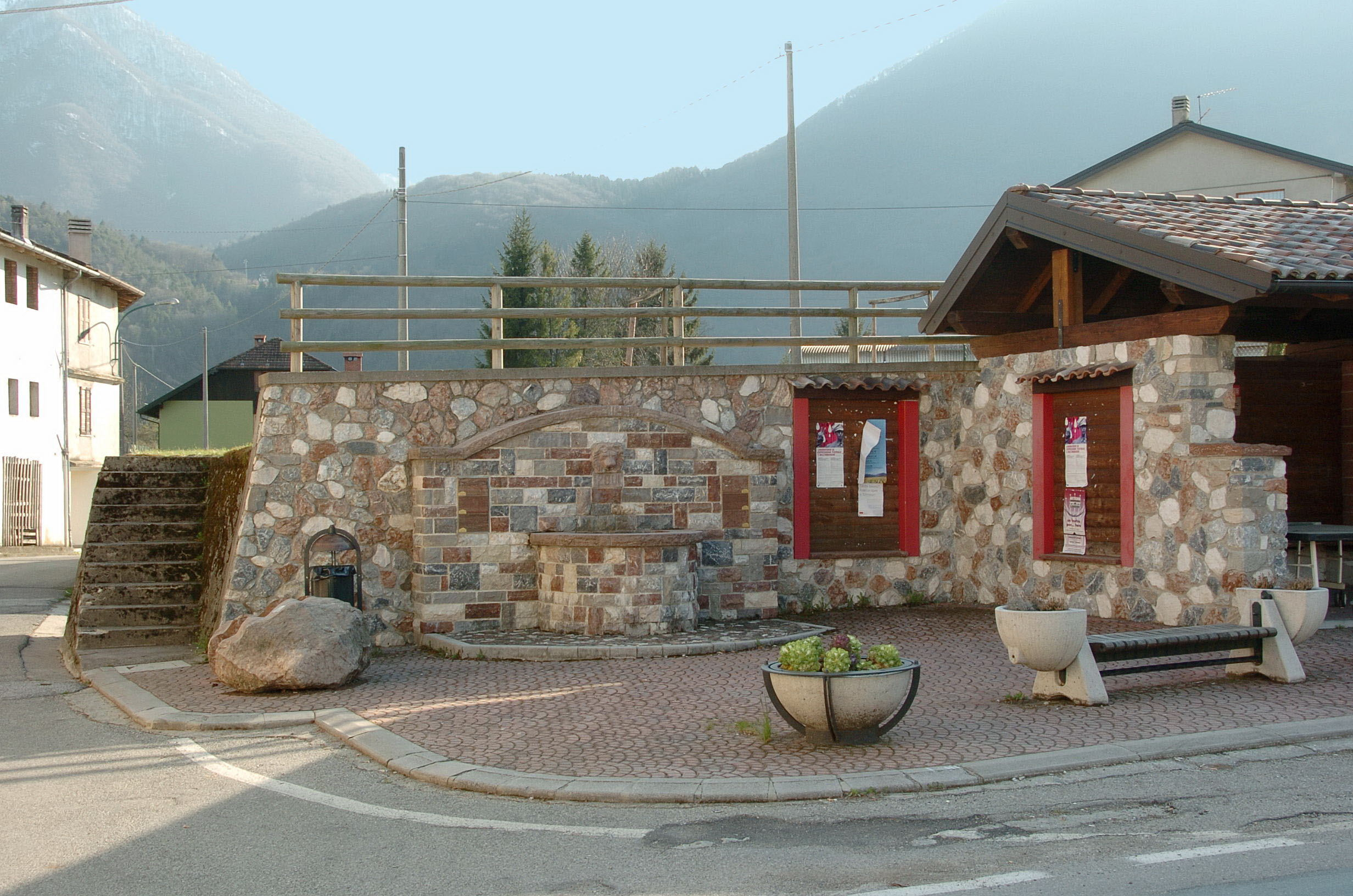 Lake of Verzegnis near the village Chiàicis in the community Verzegnis, in the background the Mountain Amariana, situated in the state Friuli-Venezia Giulia, Italy